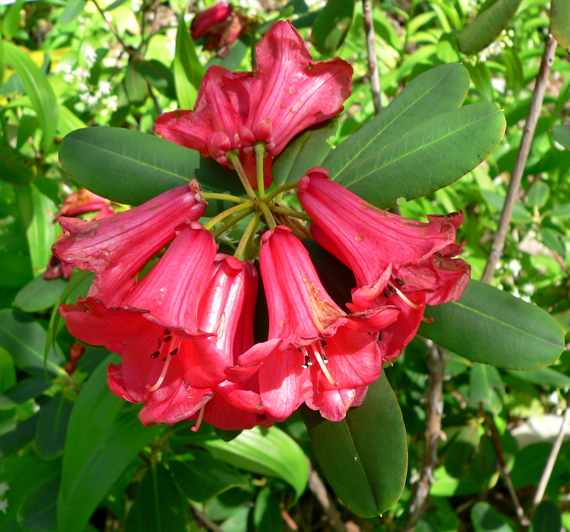 Rhododendron neriiflorum ssp. neriiflorum at the University of California Botanical Garden, Berkeley, California